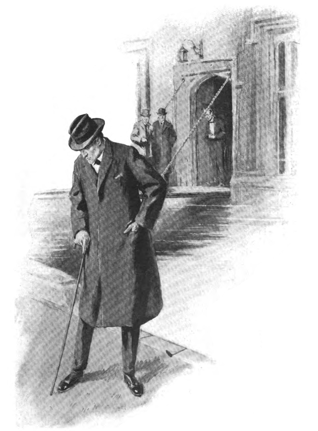 Arthur Conan Doyle, The Valley of Fear (1915), Illustration by Frank Wiles, in The Strand Magazine